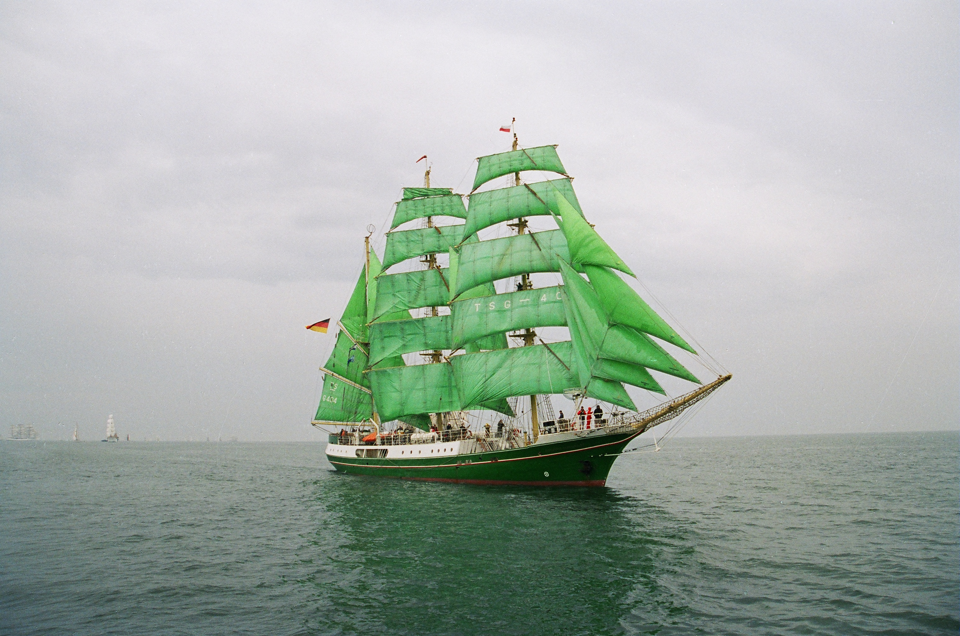 The German sailing ship Alexander von Humboldt in the Tall Ships' Races 2003.